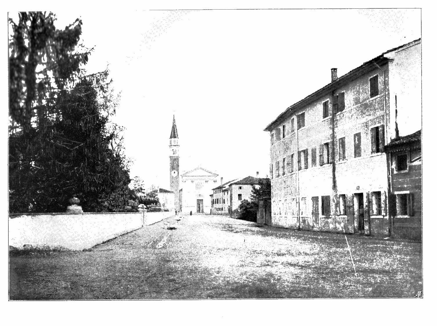 Center of Riese (Treviso) with highway and church